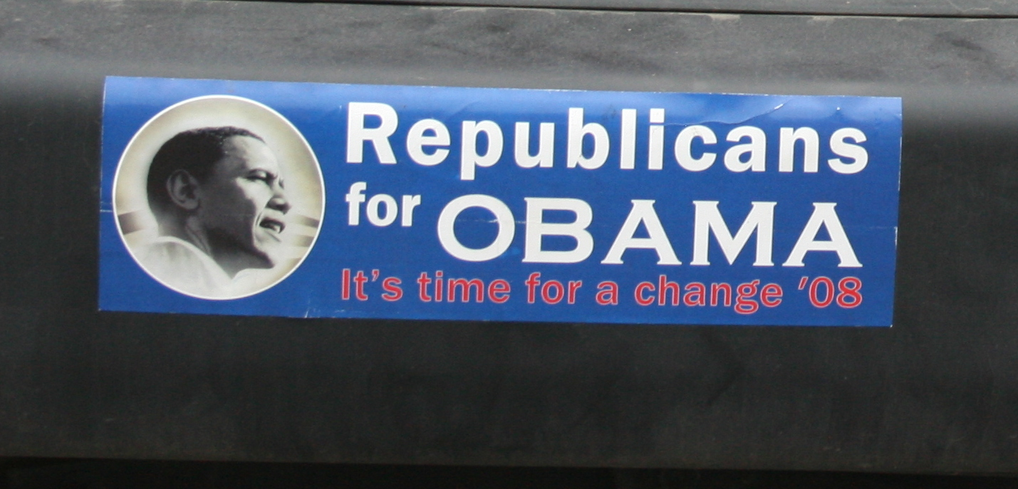 Bumper sticker saying "Republicans for Obama" on a car with Alaska license plates